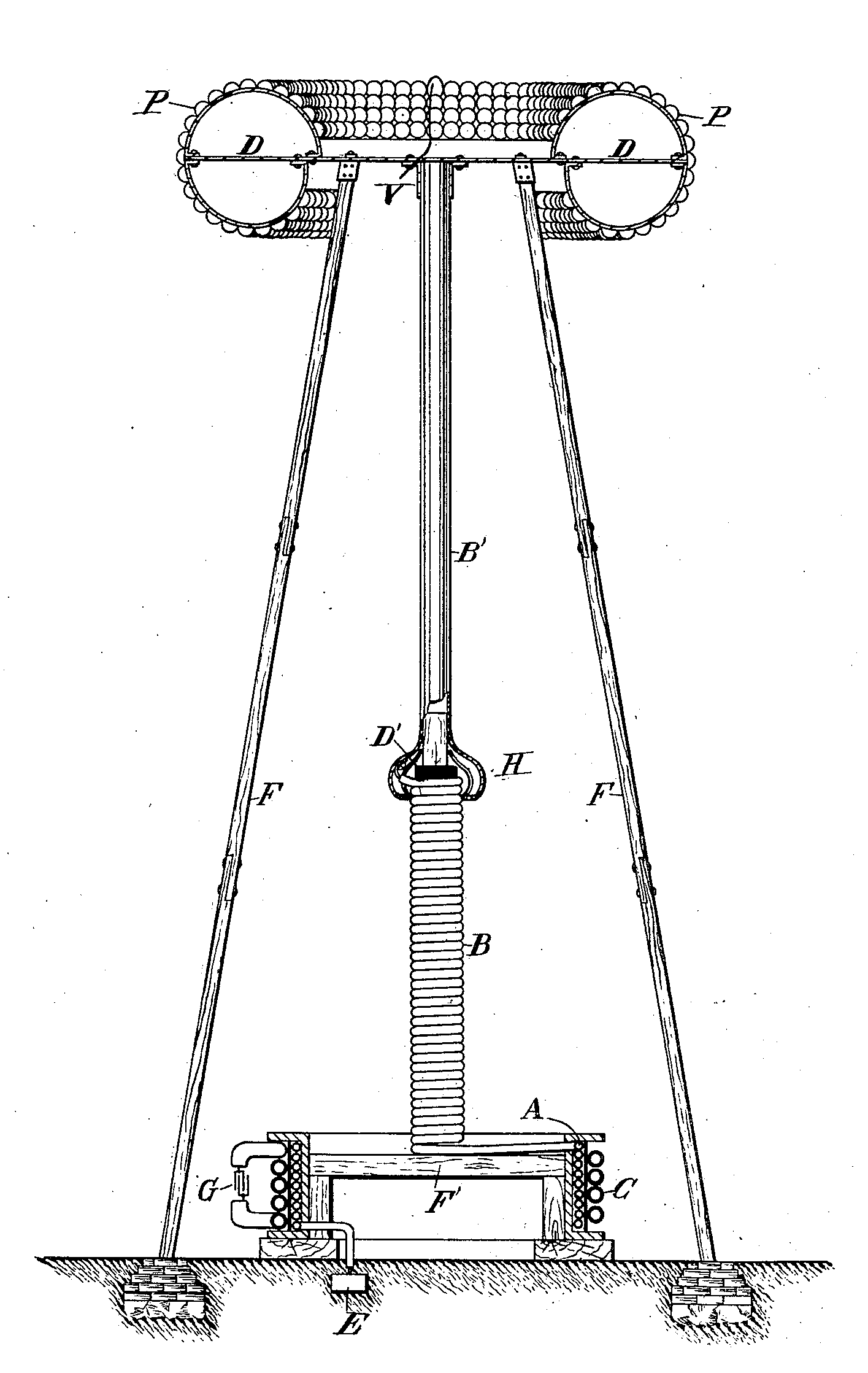 Drawing from US patent no. 1119732, "Apparatus for transmitting electrical energy", filed May 4, 1907 by inventor Nikola Tesla. It consists of a design for a wireless power transmitter. The circuit is an advanced version of his Tesla coil which he called a "magnifying transmitter" which Tesla had been developing since around 1896 and in 1900 installed in his Colorado Springs laboratory. At the base of the tower, a capacitor (G) is connected to the primary winding (C) of an air core transformer. When an oscillating current from a generator (not shown) is applied to the primary, it creates resonant oscillating currents that induce a very high oscillating voltage in the secondary winding (A). One end of the secondary is grounded (E) while the other end is connected to a tall, thin "resonator" coil (B) The top end of the resonator coil is connected through a vertical metal pipe (B') to a large torus-shaped sheet metal capacitive terminal (P) at the top of the tower. The resonator coil is tuned to resonance with the transformer and steps up the voltage still further, to millions of volts on the top terminal. The rounded shape of the top terminal is designed to prevent air breakdown and arc discharges. Tesla believed this device could transmit power long distances without wires into homes and factories by exciting standing waves of current in the Earth. In 1901 Tesla began construction of a wireless transmitter based on this design, now called the Wardenclyffe tower, at Shoreham, Long Island, New York. The station was never finished and was torn down in 1916. There is no evidence he achieved long distance power transmission.